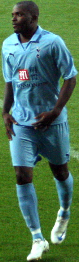 Darren Bent. Image cropped from original at flickr.